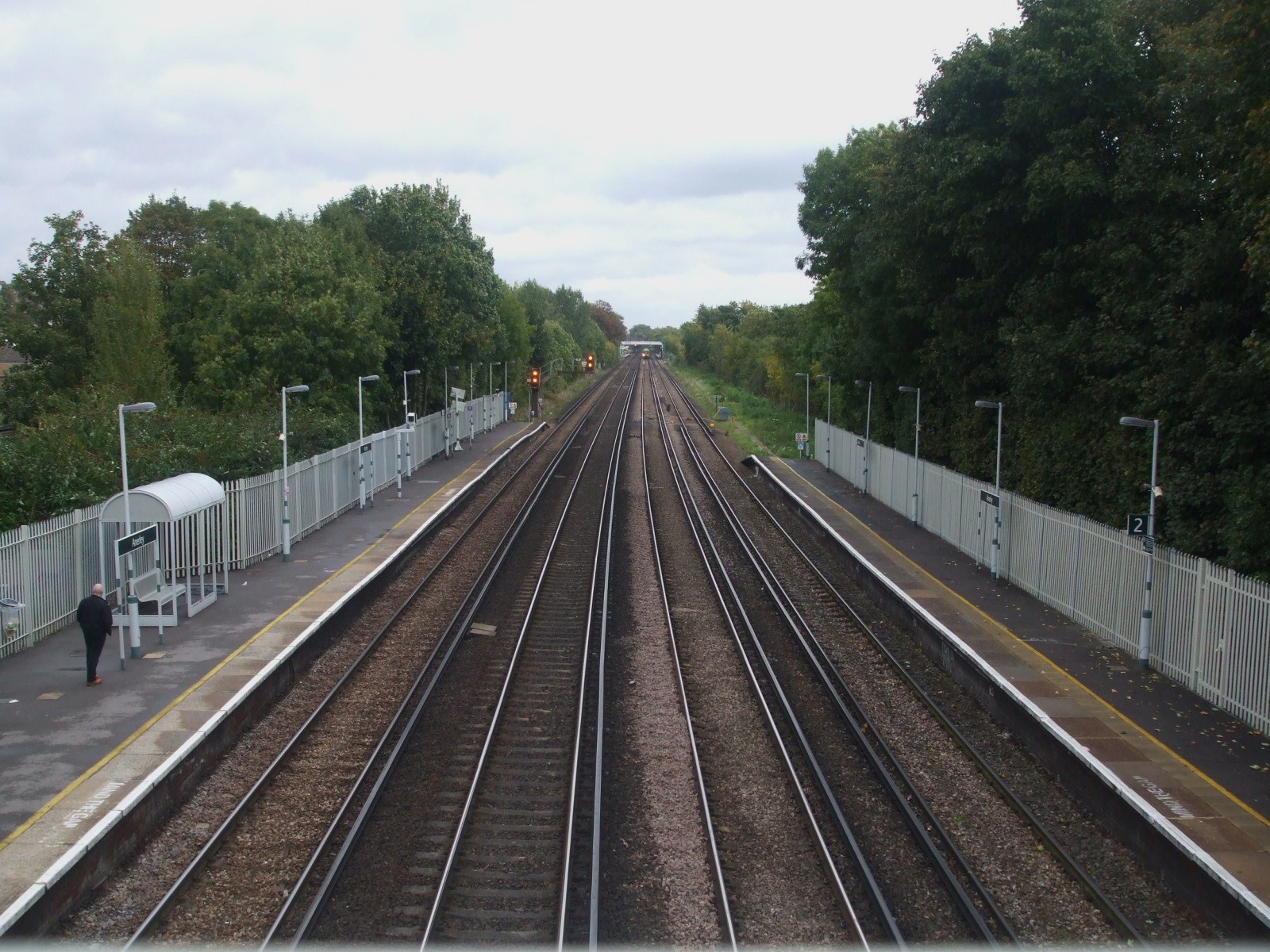 Anerley station looking north from footbridge, Penge West station visible in distance